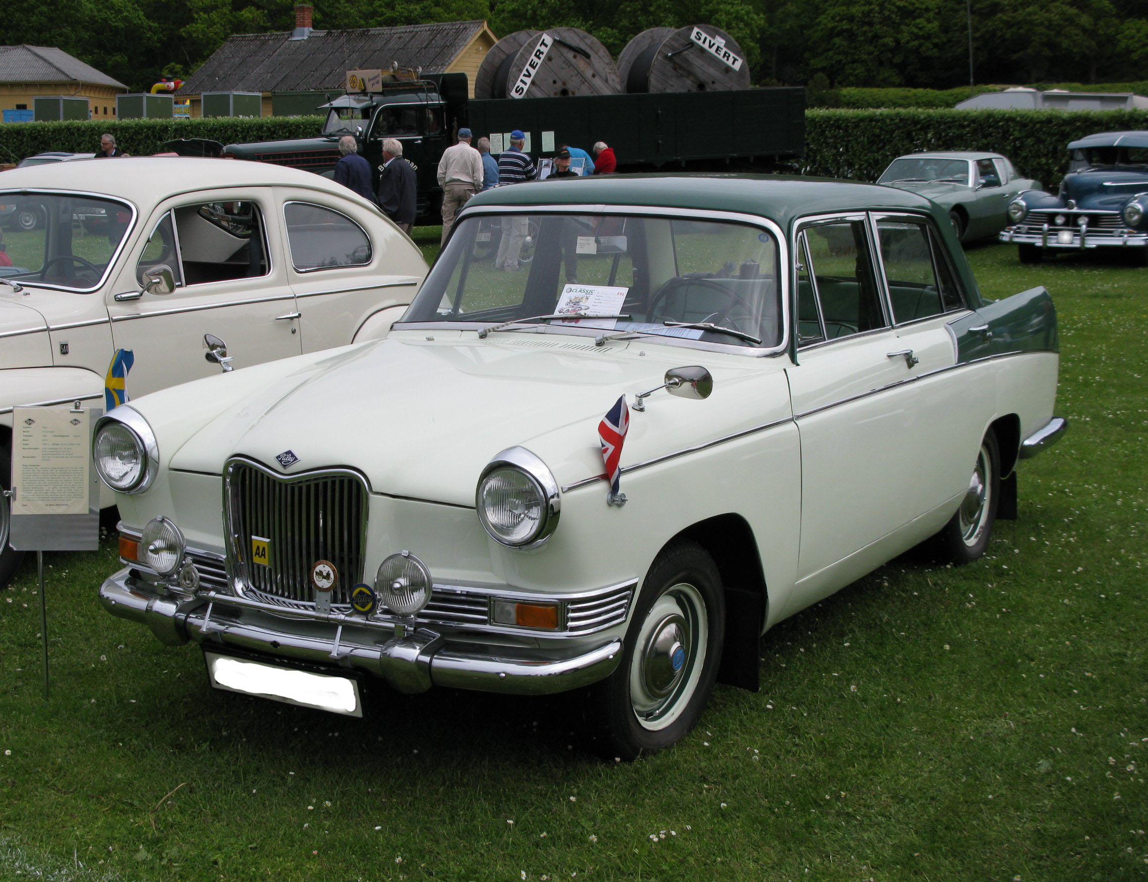 Riley 4/68 Event: Tjolöholm Classic Motor 2009